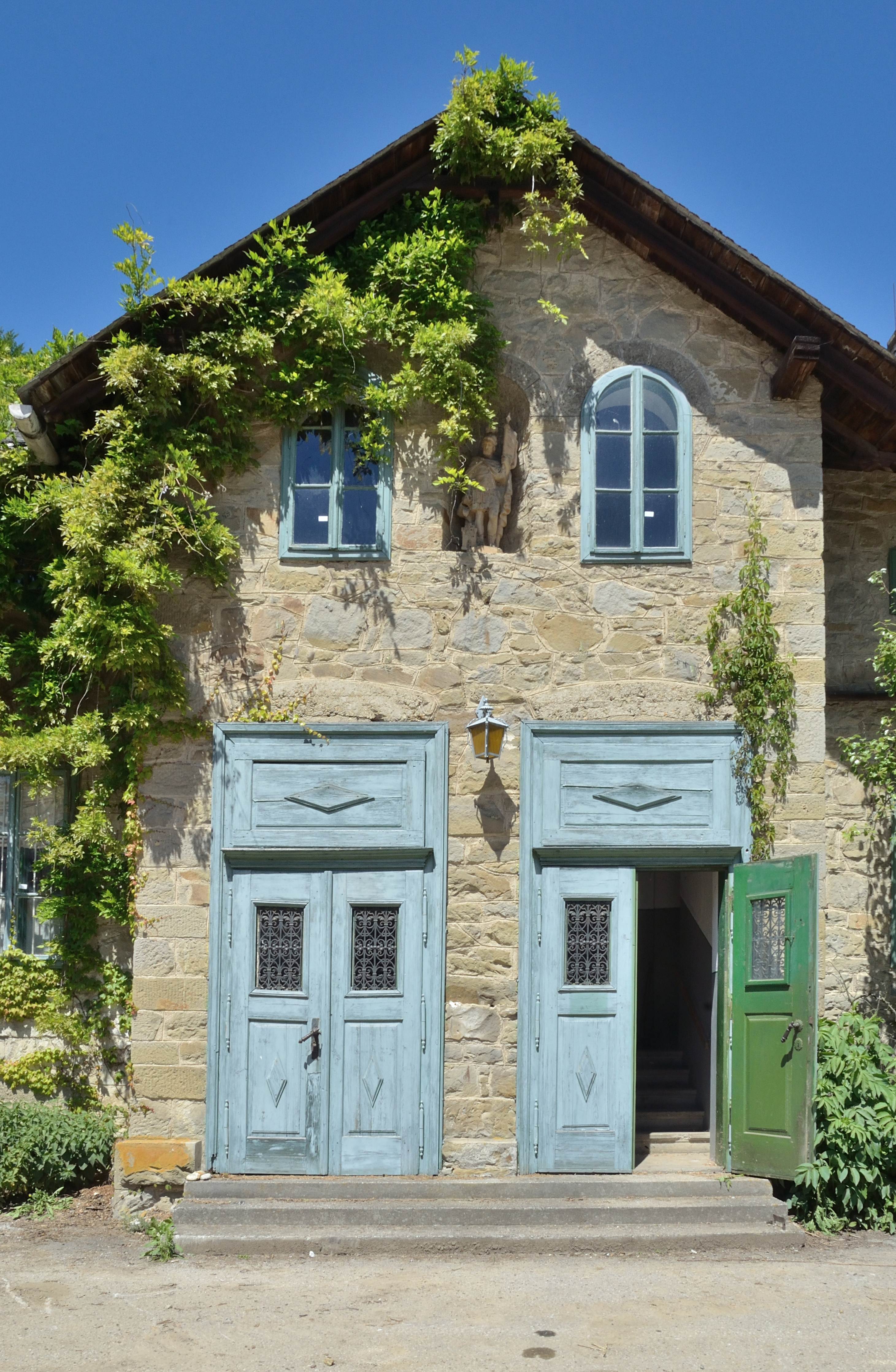 Monastery Hochstraß, former agricultural school.